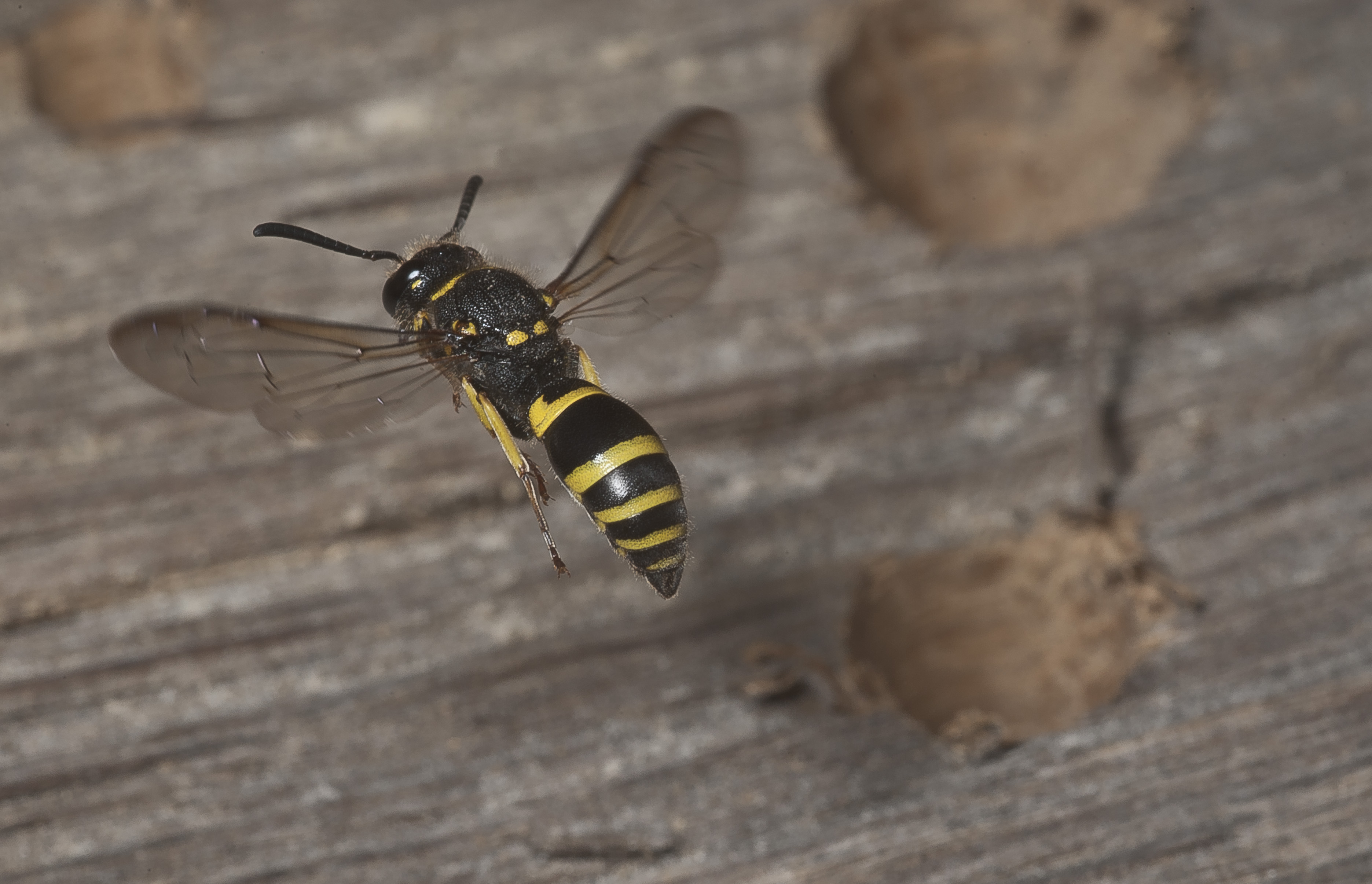 Ancistrocerus cf. nigricornis, image taken in Stuttgart, Germany. Thanks to the members of Entomologie.de for the identification.